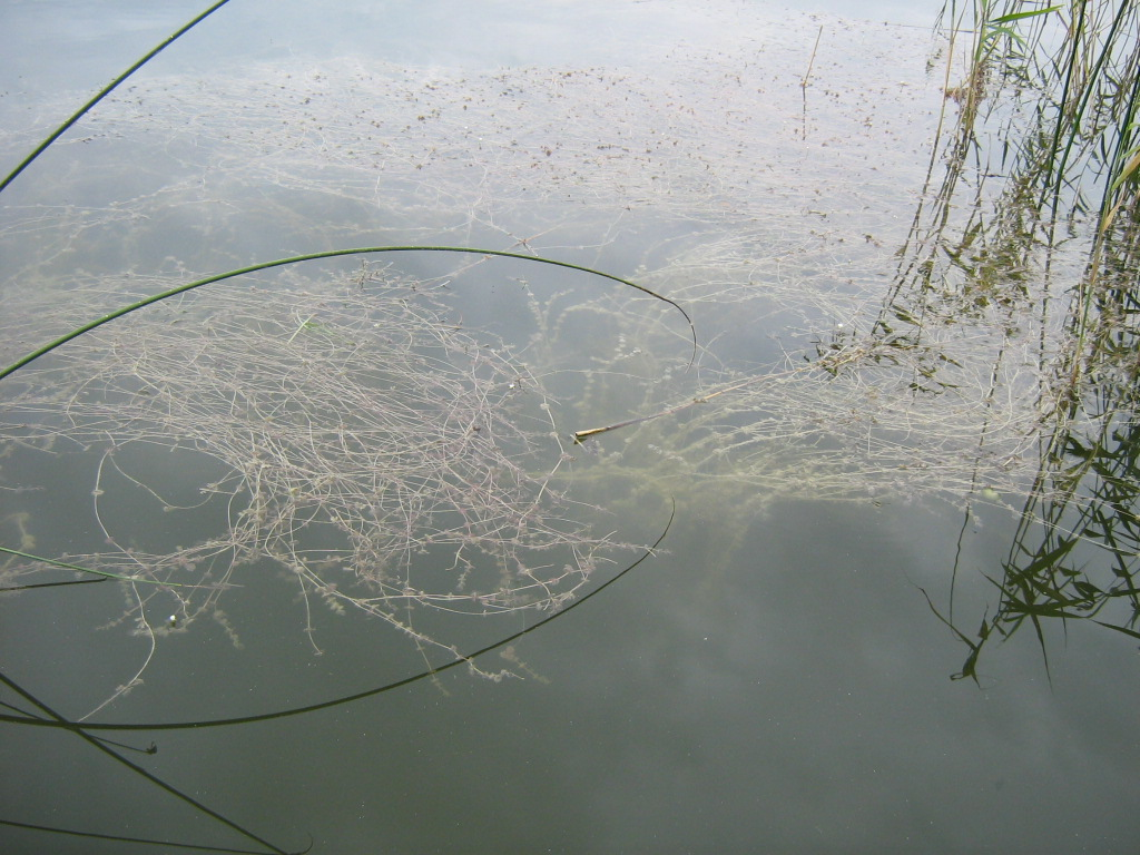 Ranunculetum circinati plant association. Mazurian Lakeland.